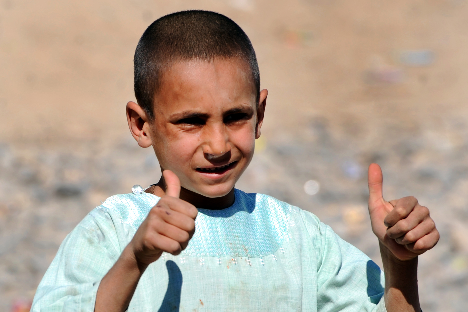 An Afghan boy gestures with his thumbs up as U.S. Defense Secretary Robert M. Gates tours the village of Tabin in Afghanistan, March 8, 2011.